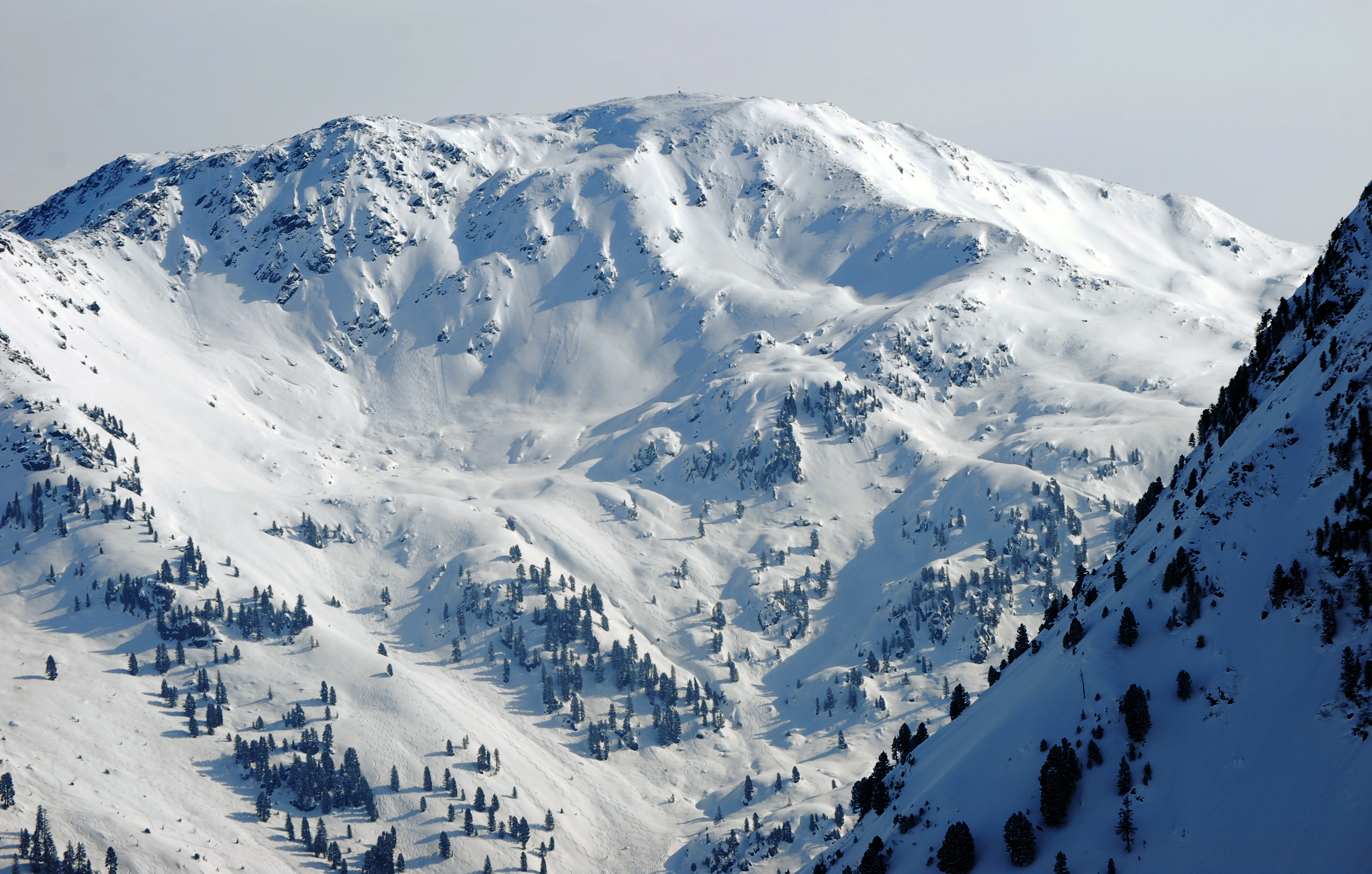 Sonnenjoch from NW (Mareitkopf)